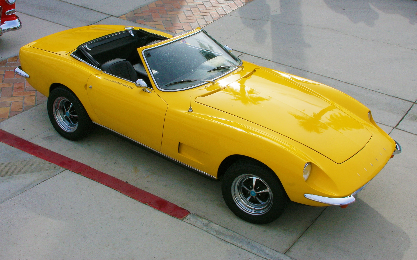 1967 Italia by Intermeccanica - fvrT